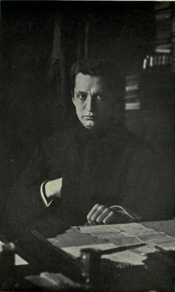 Kerensky, Russian socialist politician and prime minister.